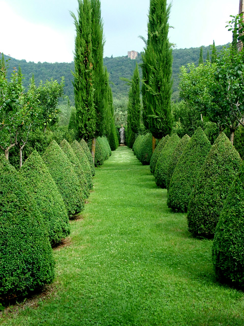 see above